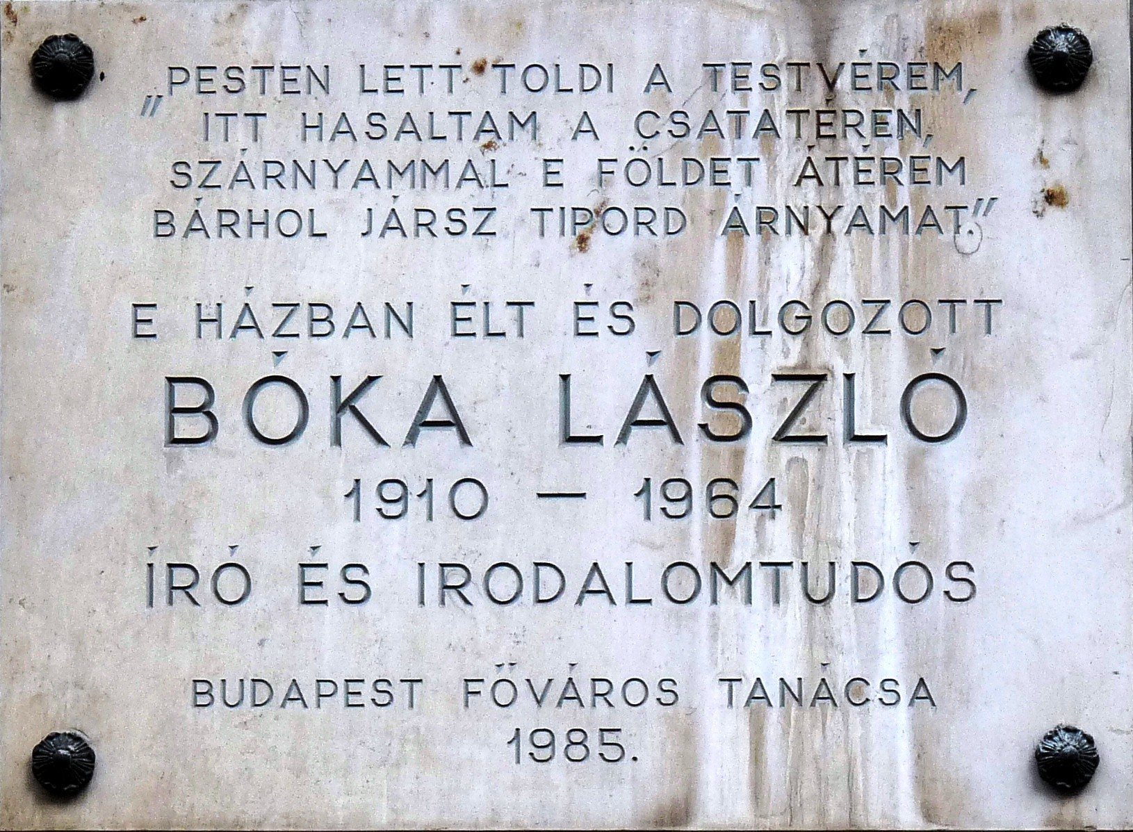 László Bóka commemorative plaque in Budapest District VIII, Kisfaludy Street No 28/a.